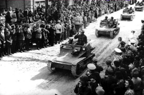 Bulgarians entering Dobrich in Southern Dobrudzha after the Treaty of Craiova (1940).